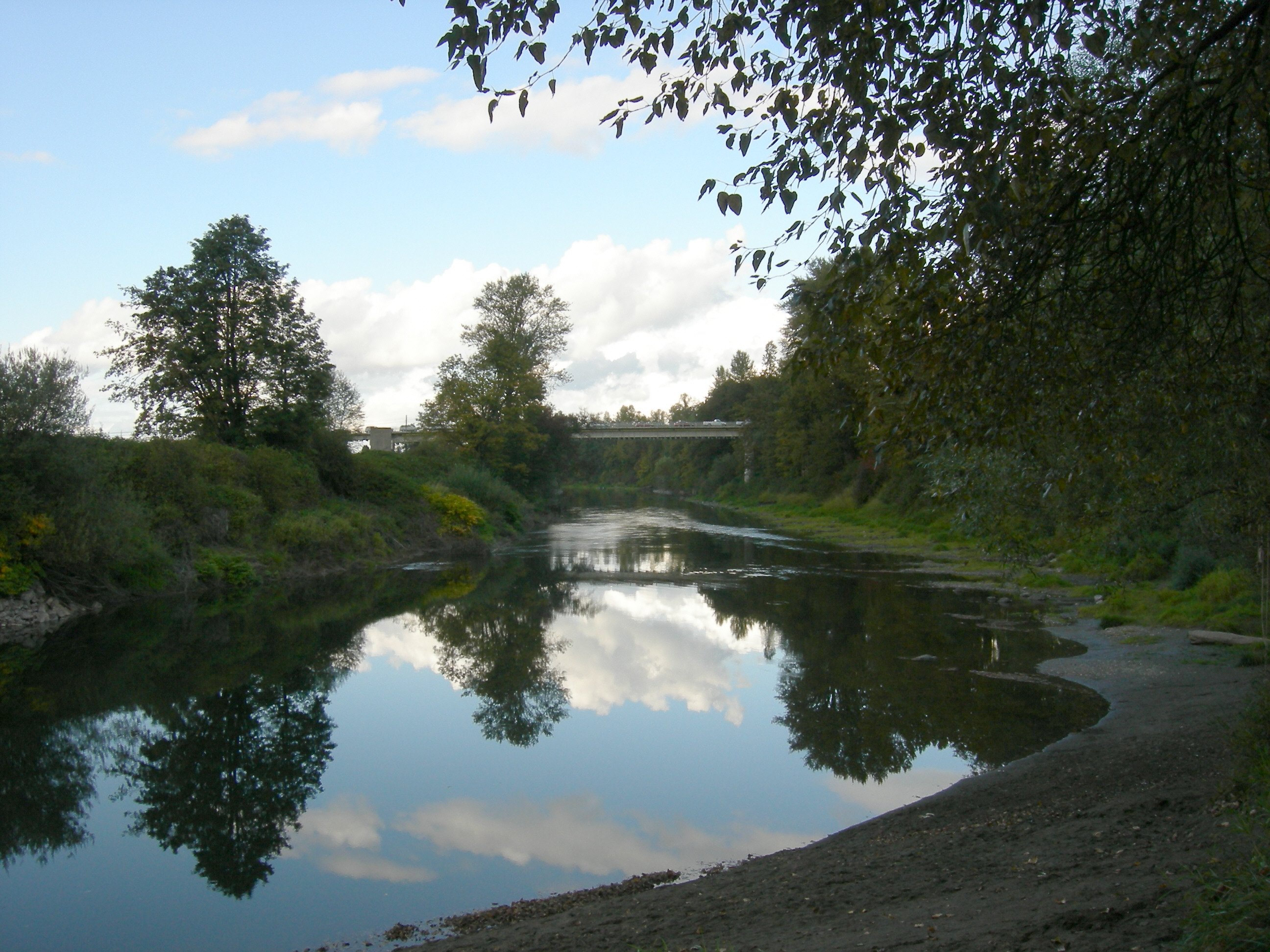 Bridge crossing the Snoqualmie River on the Woodinville-Duvall road as it enters the center of Duvall, Washington, USA. Seen from McCormick Park.